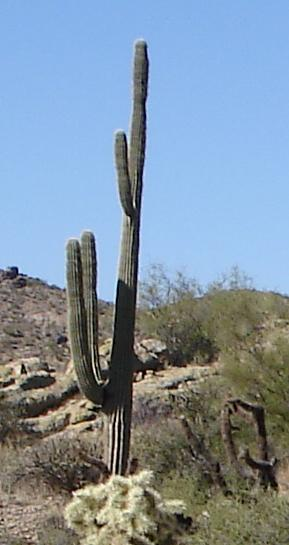 Saguaro cactus in Arizona, USA. This species is well known from Western films. Cactus?.